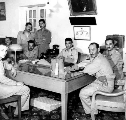 The Egyptian Free Officers in 1953. From left to right: Zakariya Mohieddine, Abdel Latif Boghdadi, Kamel el-Din Hussein (standing), Gamal Abdel Nasser, Abdel Hakim Amer (standing), Muhammad Naguib and Ahmad Shawki